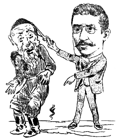 Sache Petreanu, the Romanian journalist and progressive Jewish activist. One of the major contributors to the left-wing review Adevărul, he is shown here trimming the payot of a traditionalist Jew - a reference to his advocacy of assimiliation into the Romanian mainstream. A vocal critic of the Romanian governments, at a time when mainstream Romanian politicians refused to enact the emancipation of Jews, Petreanu had been expelled from Romania by the time this cartoon saw print.